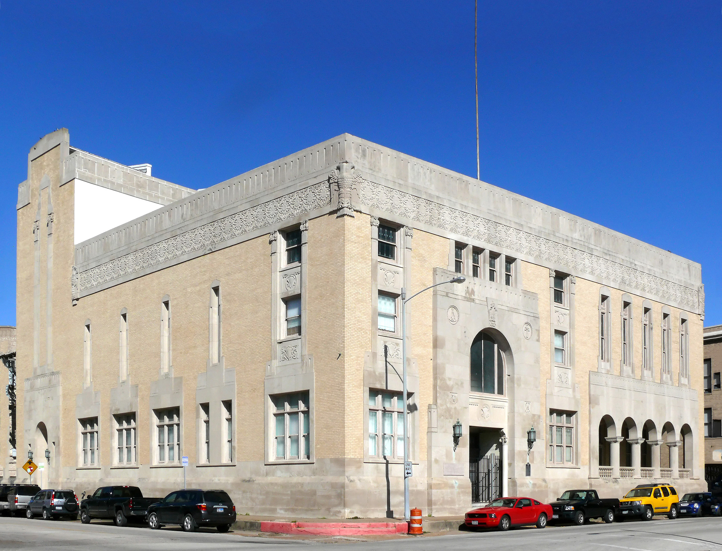 Born in 1867 in Galveston. One of major systems of celebrated Masonic fraternal organization.